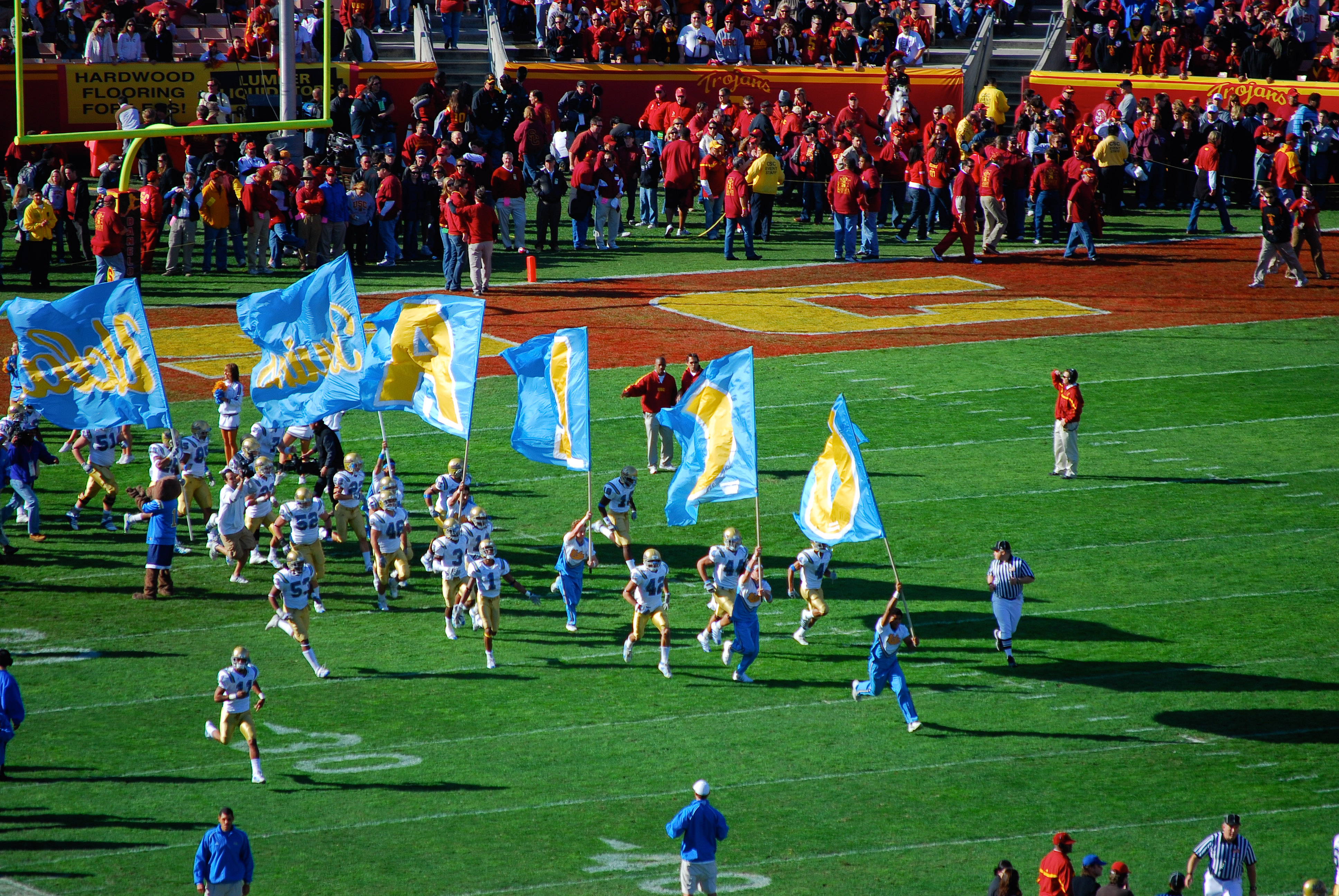 UCLA at USC.